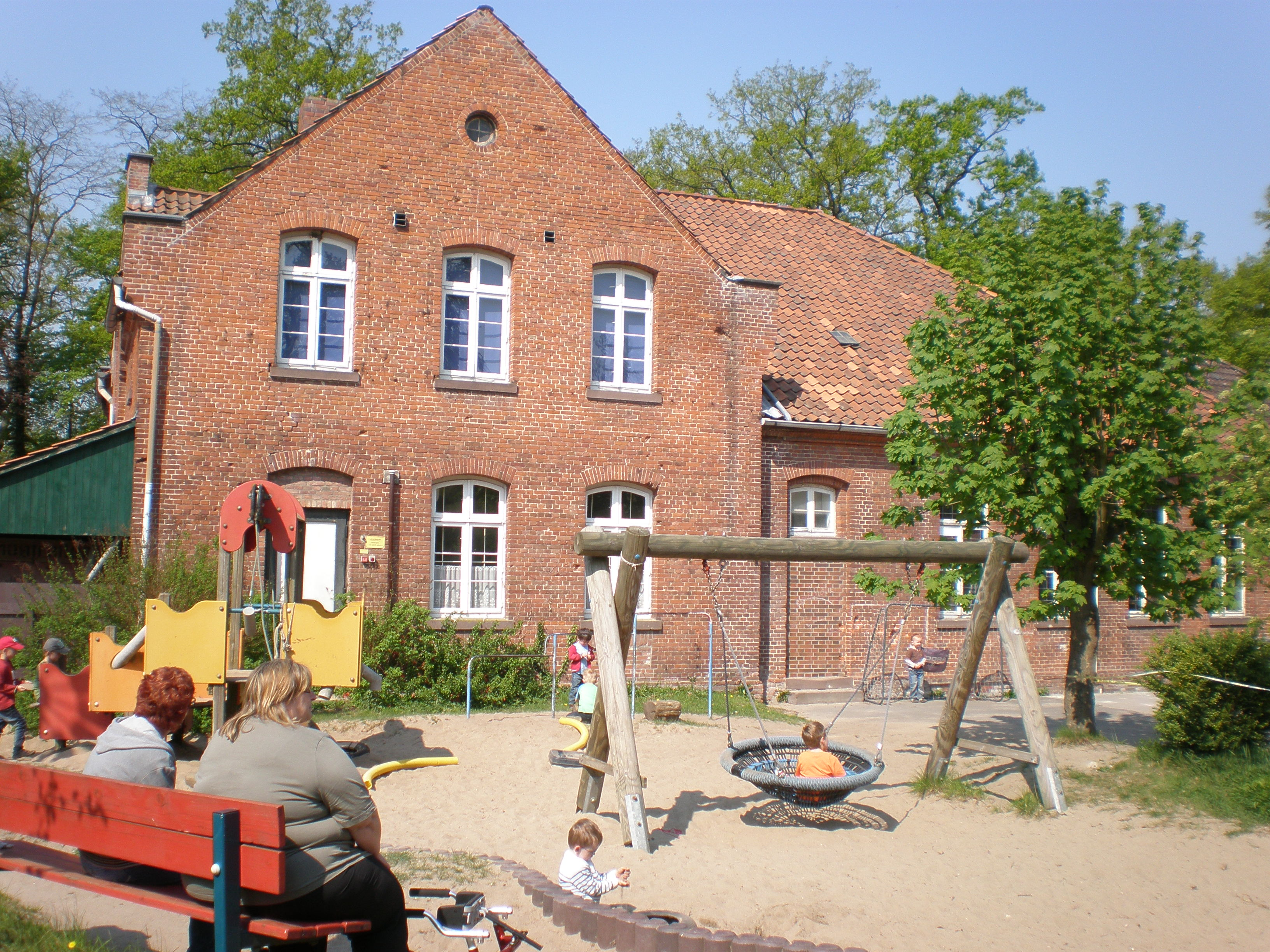 Former elementary school, now local museum, Himmelpforten. In the foreground playground of the kindergarten.